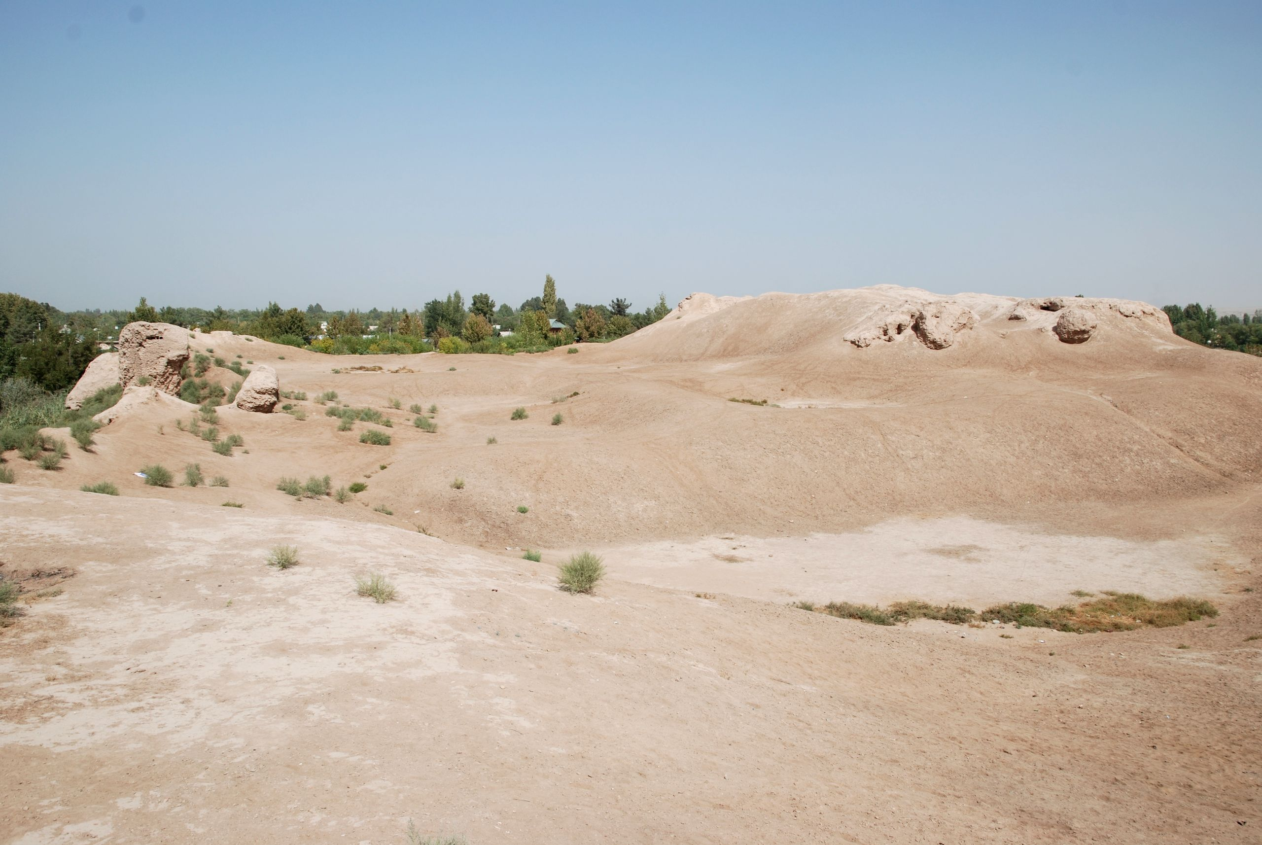 Qabodiyon, Kalai Mir